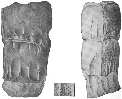 The Eurypterida of New York. Volume 1. New York State Museum Memoir 14, figure 68